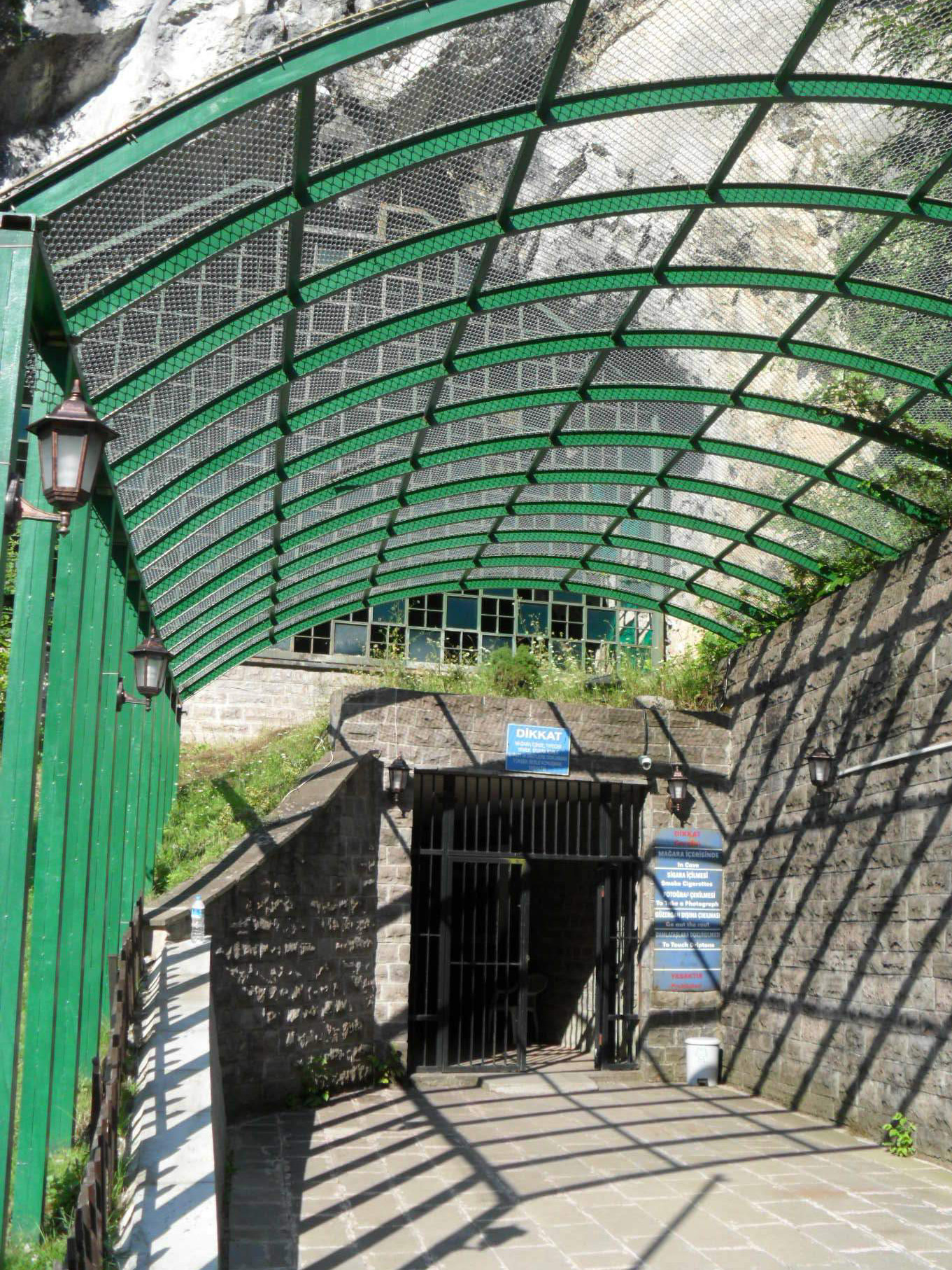 Gökgöl Cave gate